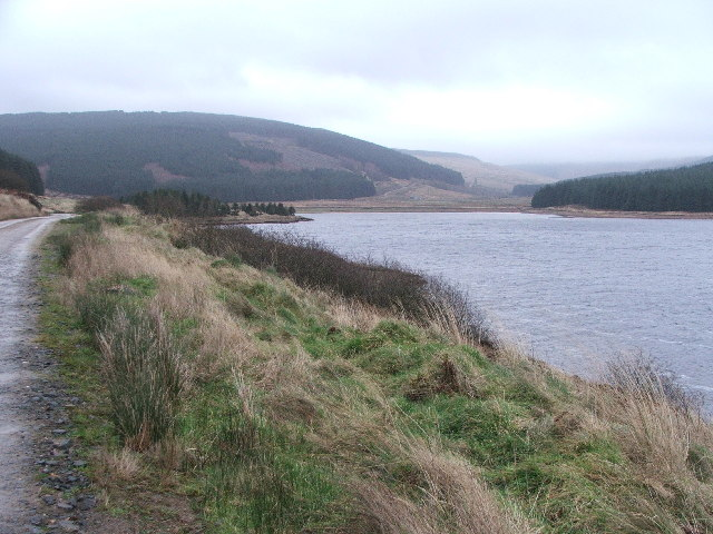 Western shore of Lussa Loch. Looking NE at NR712308.